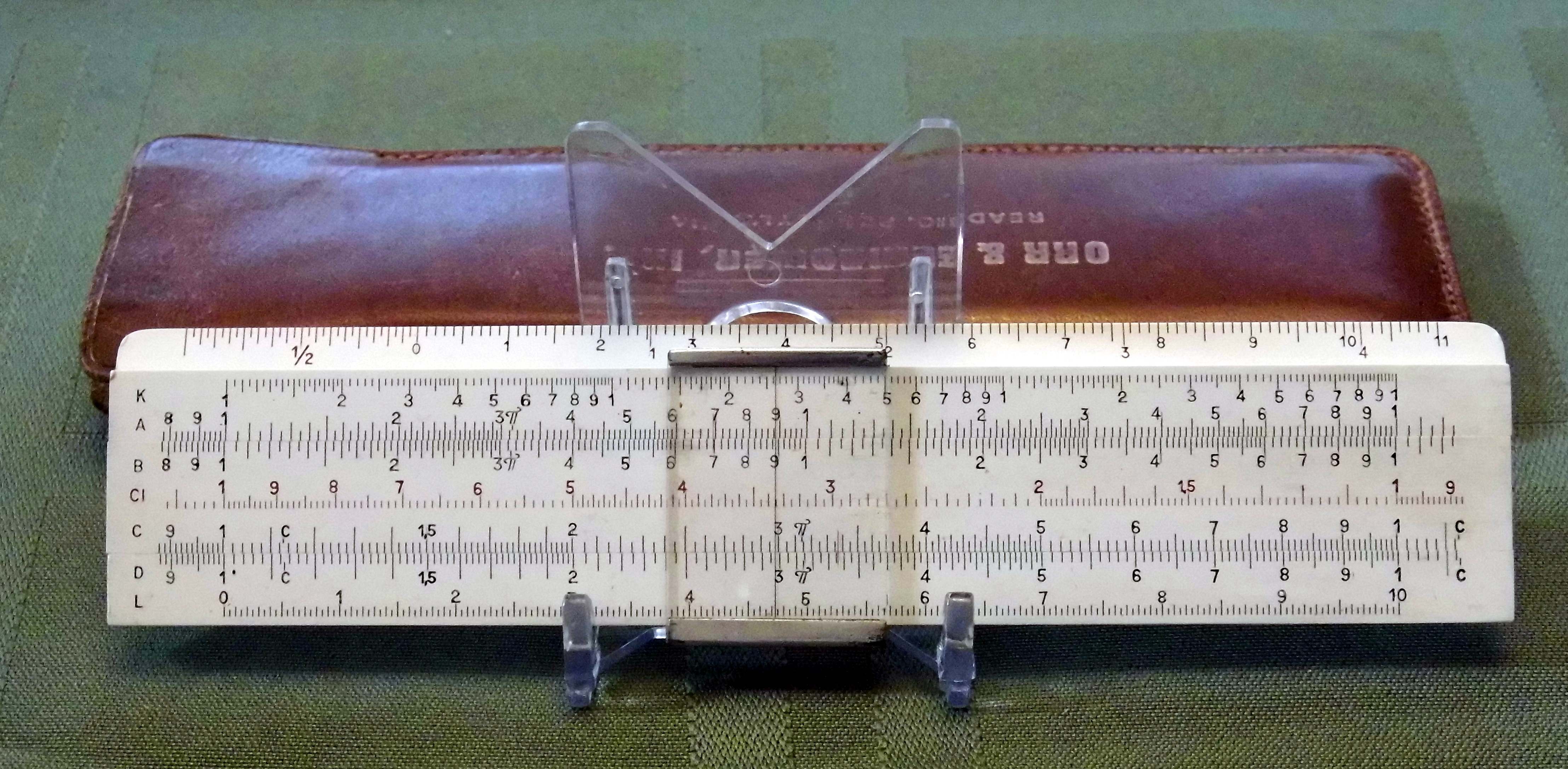 Vintage Diwa 5-Inch Slide Rule, Promotional Item - Imprinted Orr & Sembower, Inc., Reading, Pennsylvania, No Model Number, Made in Denmark